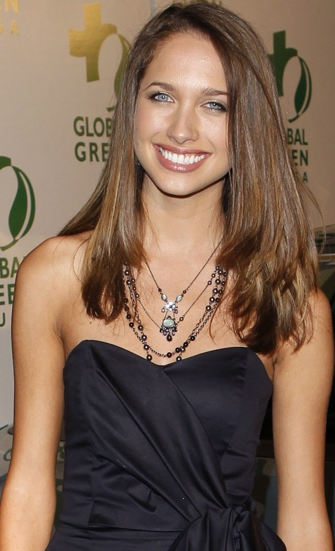 Maiara Walsh stands with the Chevrolet Volt electric plug-in vehicle on the green carpet of Global Green USA’s 2010 Pre-Oscar Party on Wednesday, March 3, 2010 in Hollywood, California